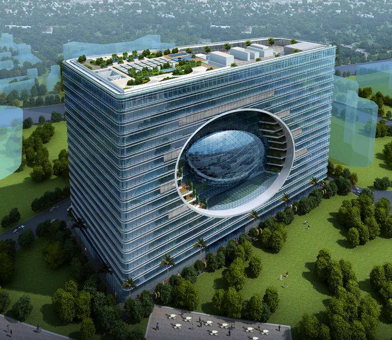 The Capital building live image